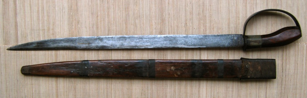 The blade is a late-19th to early-20th century Filipino sword, used by the Katipunan, during the 1896-1898 Philippine Revolution, up to perhaps the Philippine-American War. The wooden scabbard and a leather 'throat' of the scabbard all point to the Visayan origin of the antique sword. The ferrule is made of brass and the "D" guard is made of iron. The blade has brass inlays which apparently are anting-anting (talismanic) symbols. Many Filipino freedom fighters during the subject period believed in the powers of their anting-anting. Overall length: 579 mm (22.8 inches); Blade length: 468 mm (18.4 inches); Maximum blade thickness: 5 mm (3/16 inch) Other uploaded materials by the same author are here: (a) Luzon weapons; (b) Visayan weapons; (c) Moro weapons; and (d) Lumad (non-Moro Mindanao) weapons Category:Weapons of the Visayan people of the Philippines